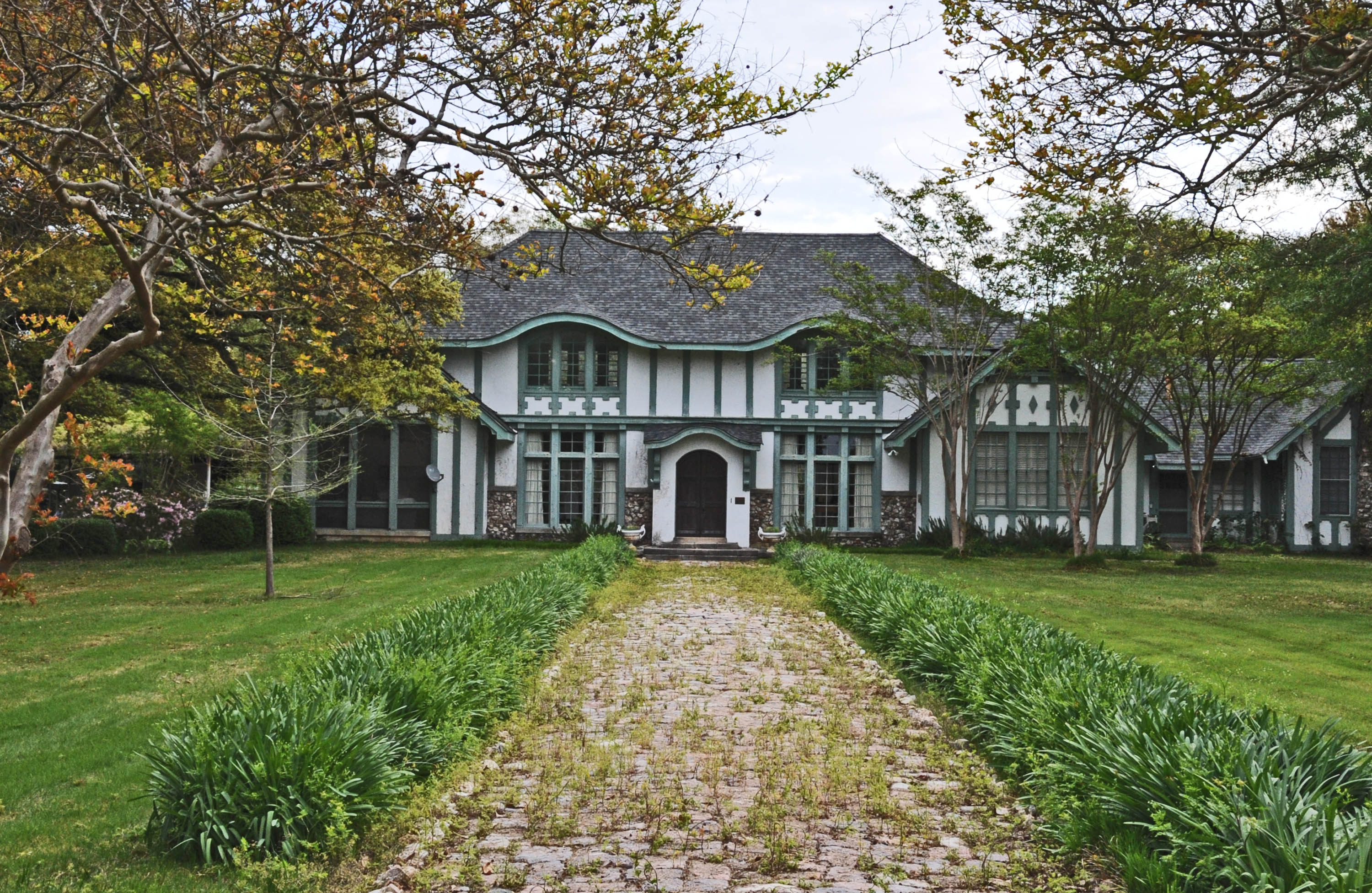 1920 TUDOR REVIVAL